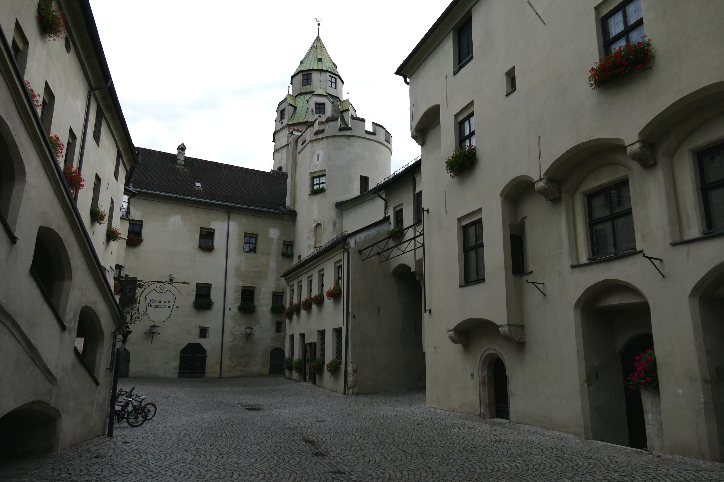 Burg Hasegg - Hall in Tirol, Austria, 18.8.2016